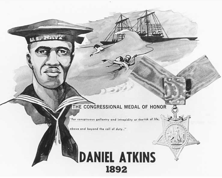 United States Navy poster featuring Daniel Atkins, Medal of Honor recipient. Note: the correct year of his Medal of Honor action was 1898, not 1892 as stated on the poster.